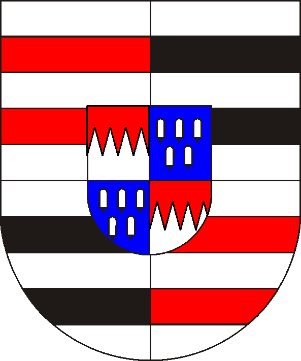 coats of arms of Isenburg-Meerholz till 1774 1,4: county of Nieder-Isenburg; 2,3: county of Ober-Isenburg; heart: county of Limpurg